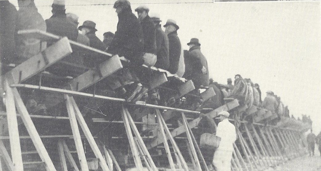 Photograph of temporary stands erected around the edge of Michigan Stadium for the 1933 football game between the 1933 Michigan Wolverines football team and the 1933 Ohio State Bueckeyes This work is in the public domain because it was published in the United States between 1925 and 1963 and although there may or may not have been a copyright notice, the copyright was not renewed. Unless its author has been dead for the required period, it is copyrighted in the countries or areas that do not apply the rule of the shorter term for US works, such as Canada (50 pma), Mainland China (50 pma, not Hong Kong or Macao), Germany (70 pma), Mexico (100 pma), Switzerland (70 pma), and other countries with individual treaties. See Commons:Hirtle chart for further explanation. This work is in the public domain in the United States because it was published in the United States between 1925 and 1977, inclusive, without a copyright notice. For further explanation, see Commons:Hirtle chart as well as a detailed definition of "publication" for public art. Note that it may still be copyrighted in jurisdictions that do not apply the rule of the shorter term for US works (depending on the date of the author's death), such as Canada (50 p.m.a.), Mainland China (50 p.m.a., not Hong Kong or Macao), Germany (70 p.m.a.), Mexico (100 p.m.a.), Switzerland (70 p.m.a.), and other countries with individual treaties.